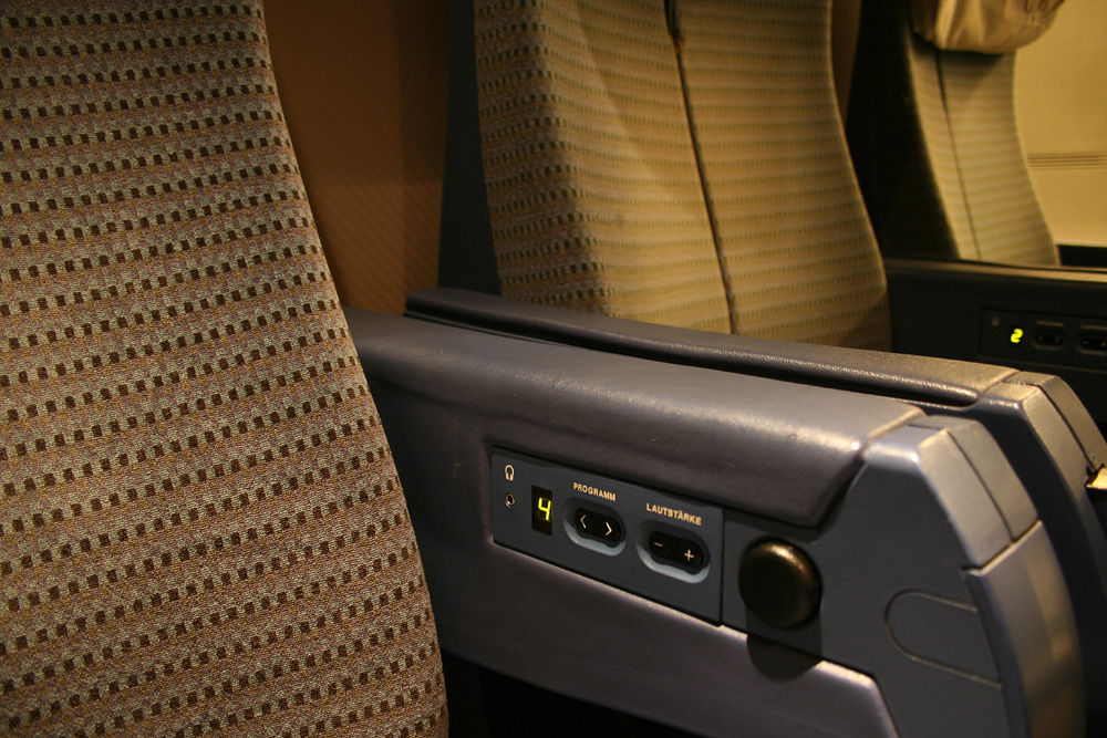 Audio system on a original ICE 1 (2nd class) seat. These sockets for standard headphones are removed in the refurbishment of the flett (between 2005 and approximately 2008)